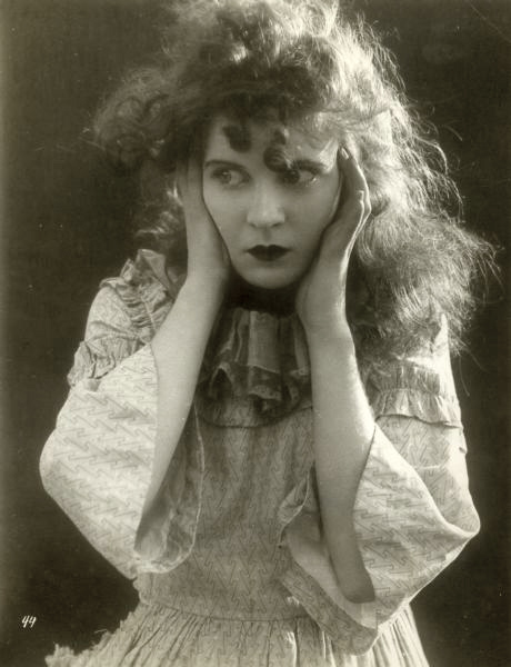 Mae Marsh in a publicity still for the 1915 silent film The Birth of a Nation.